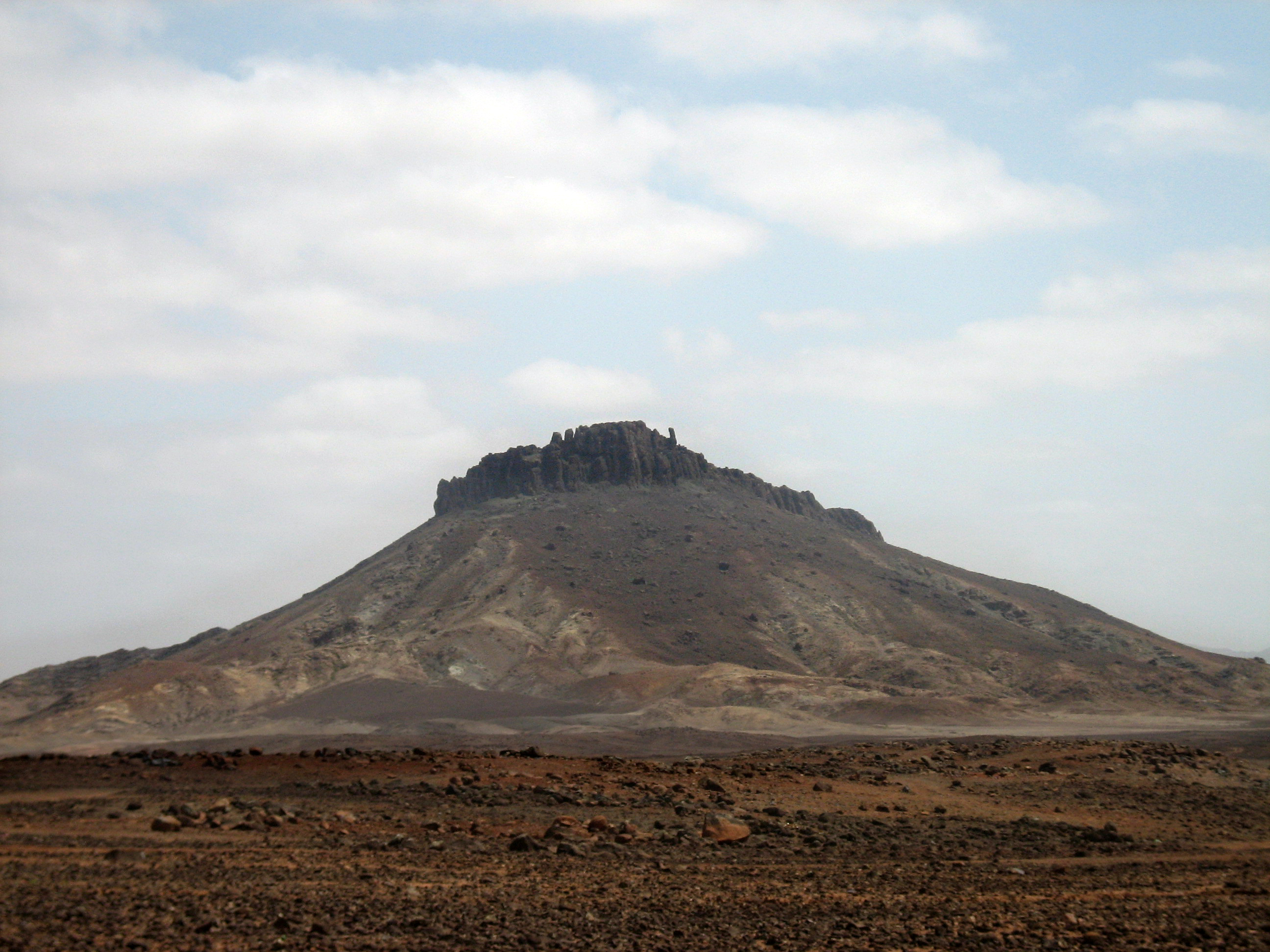 Pico Santo António on Boa Vista, Cape Verde. The bizarre summit top consists of basaltic rock, the flanks are formed by eroded material.